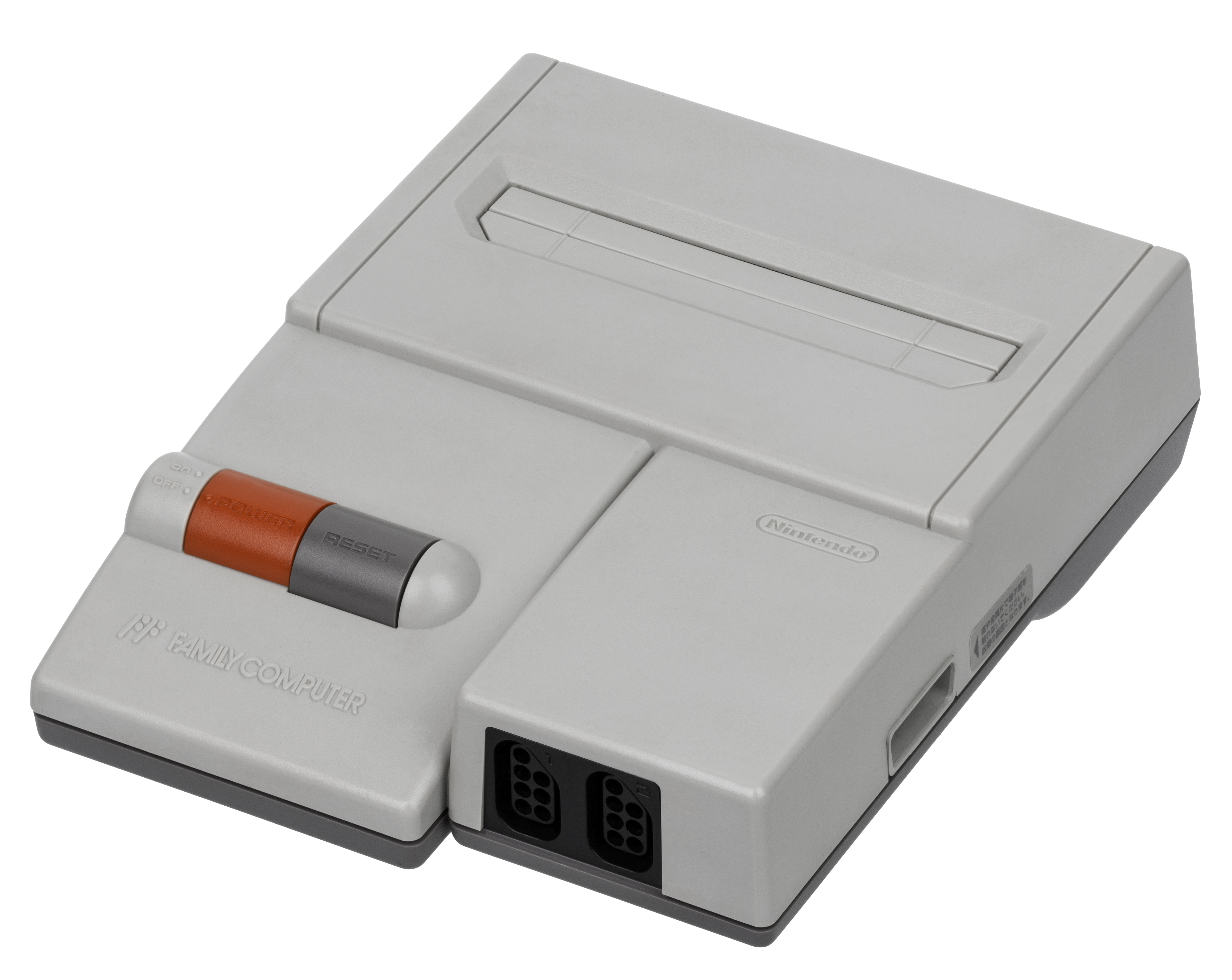 The Nintendo Famicom video game console, model HVC-101. This is the revised version of the console (commonly called the "AV Famicom") that was released in 1993. It features a streamlined and revised motherboard. Unlike the regular Famicom, this version offers composite video out through a Nintendo multi-AV connector.